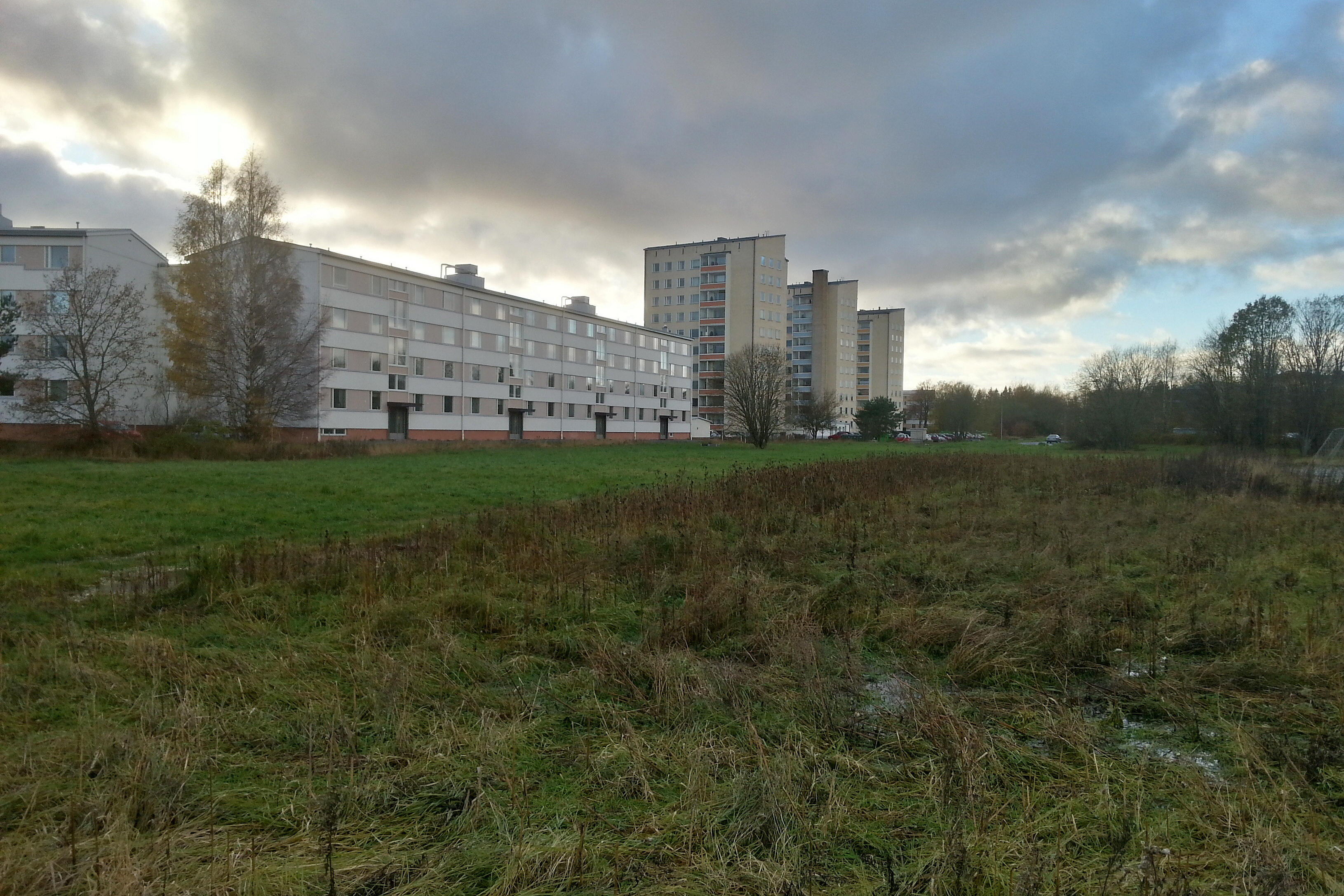 Itäisen Vaasantien linjaa.